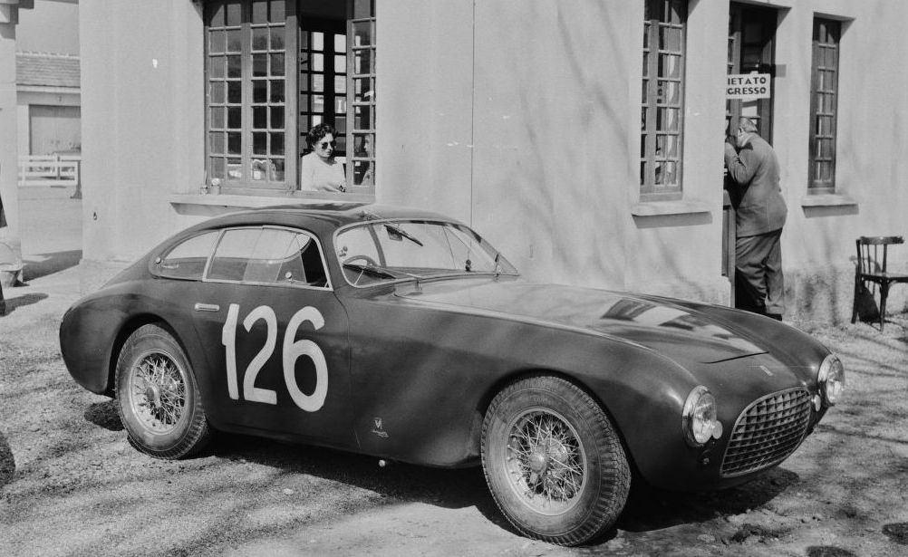 1951 Ferrari 212 MM s/n 0070, #126 was the starting number in the Coppa Intereuropa (at Monza) race on 15 April 1951, driven by Luigi Villoresi (who won the race).[1] So perhaps this is around Monza.